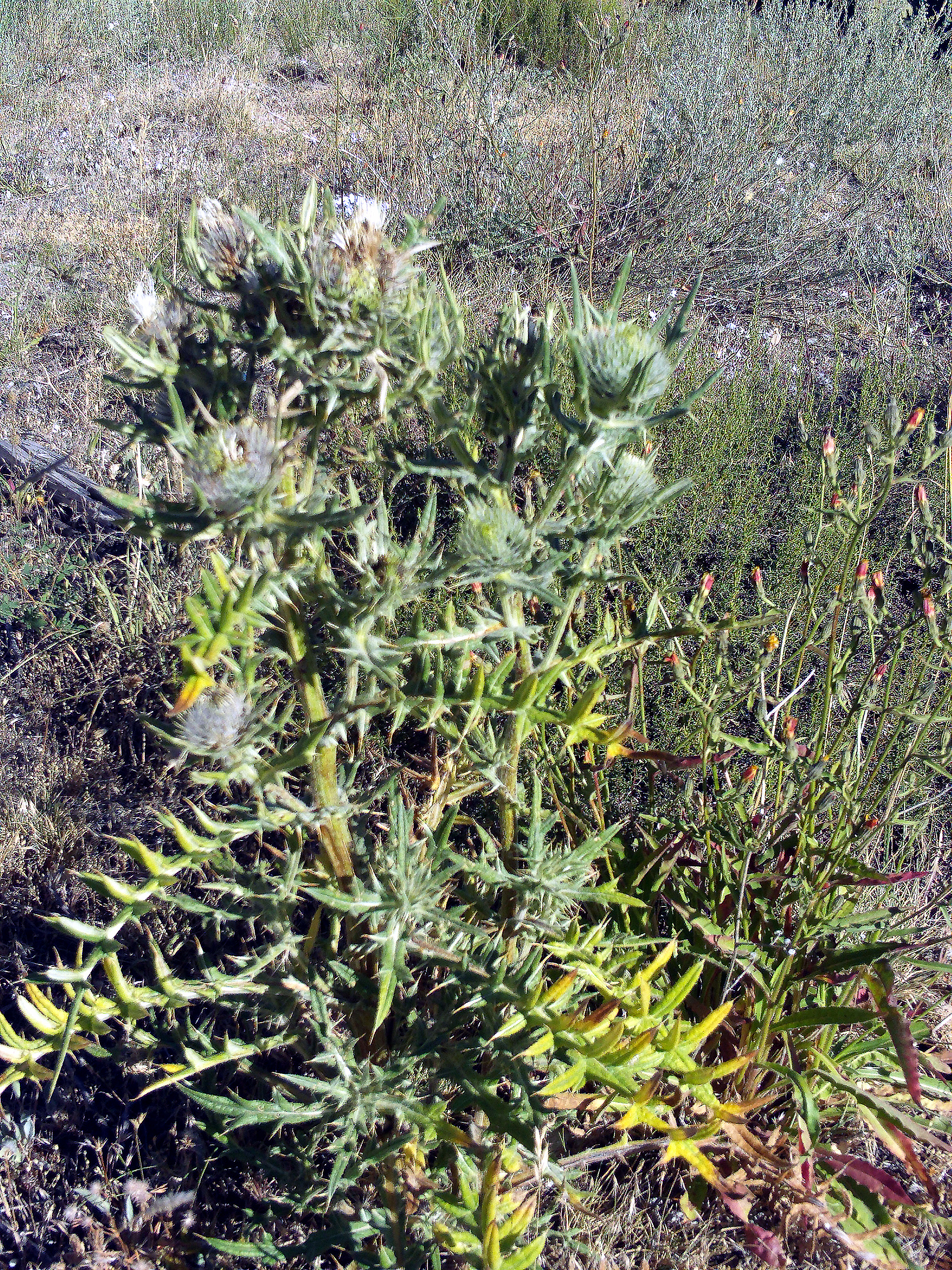 Cirsium odontolepis habit at 2300 meters, Sierra Nevada, Spain